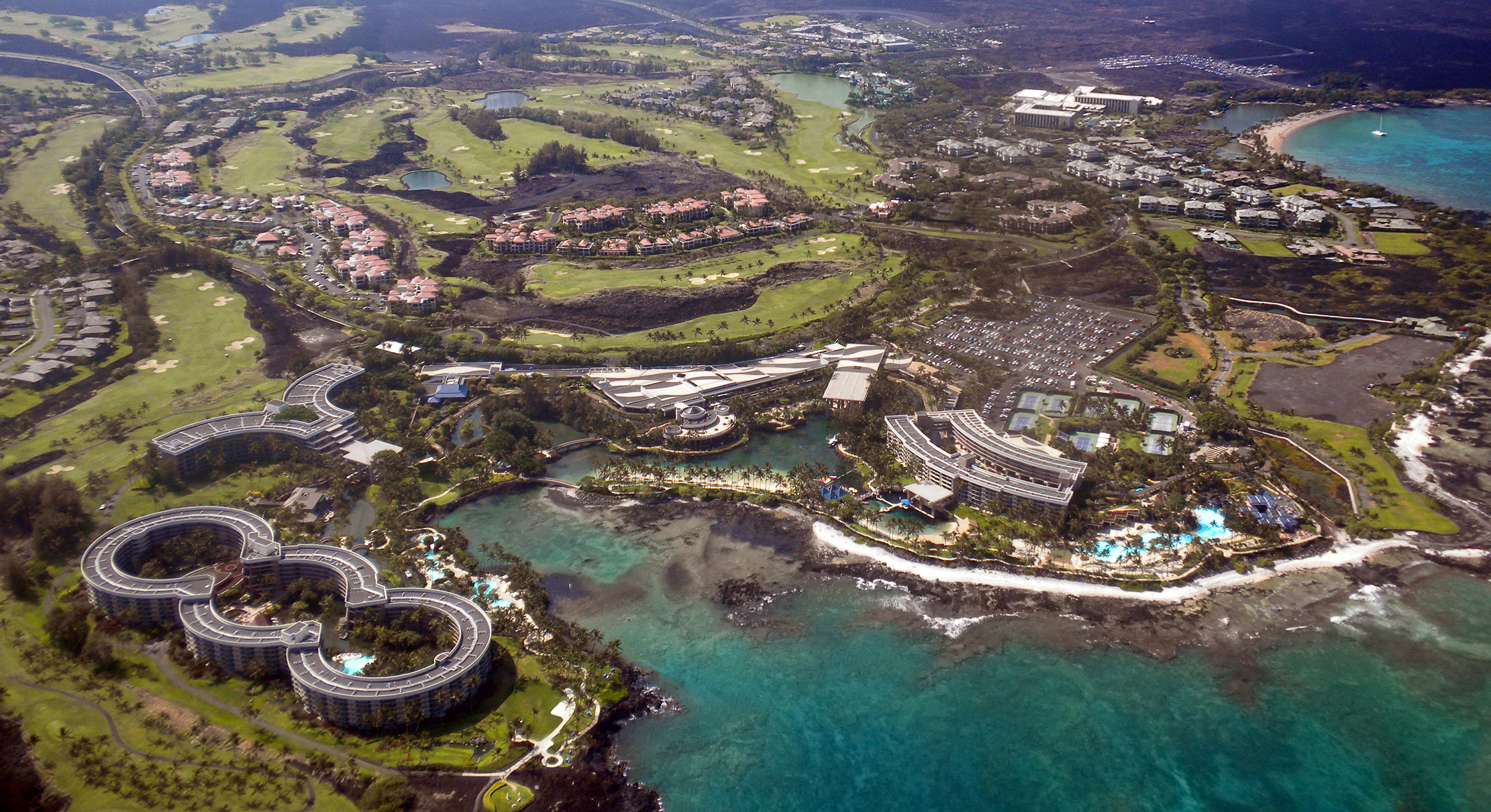 Aerial of the Hilton Waikoloa, located along the South Kohala coast on the Big Island of Hawaii